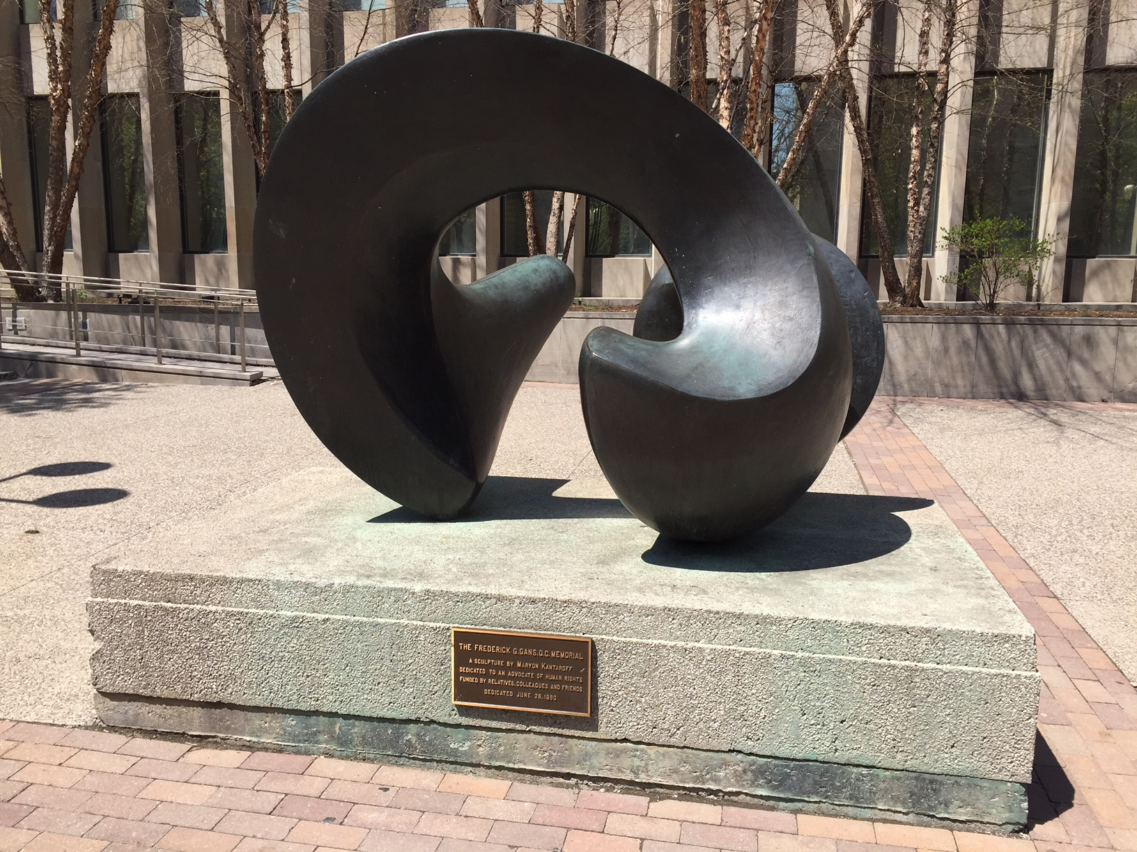 Memorial to Frederick G. Gans, Q.C., featuring sculpture by Maryon Kantaroff. Located in Toronto on the pedestrian mall connecting the Courthouse and Nathan Phillips Square.